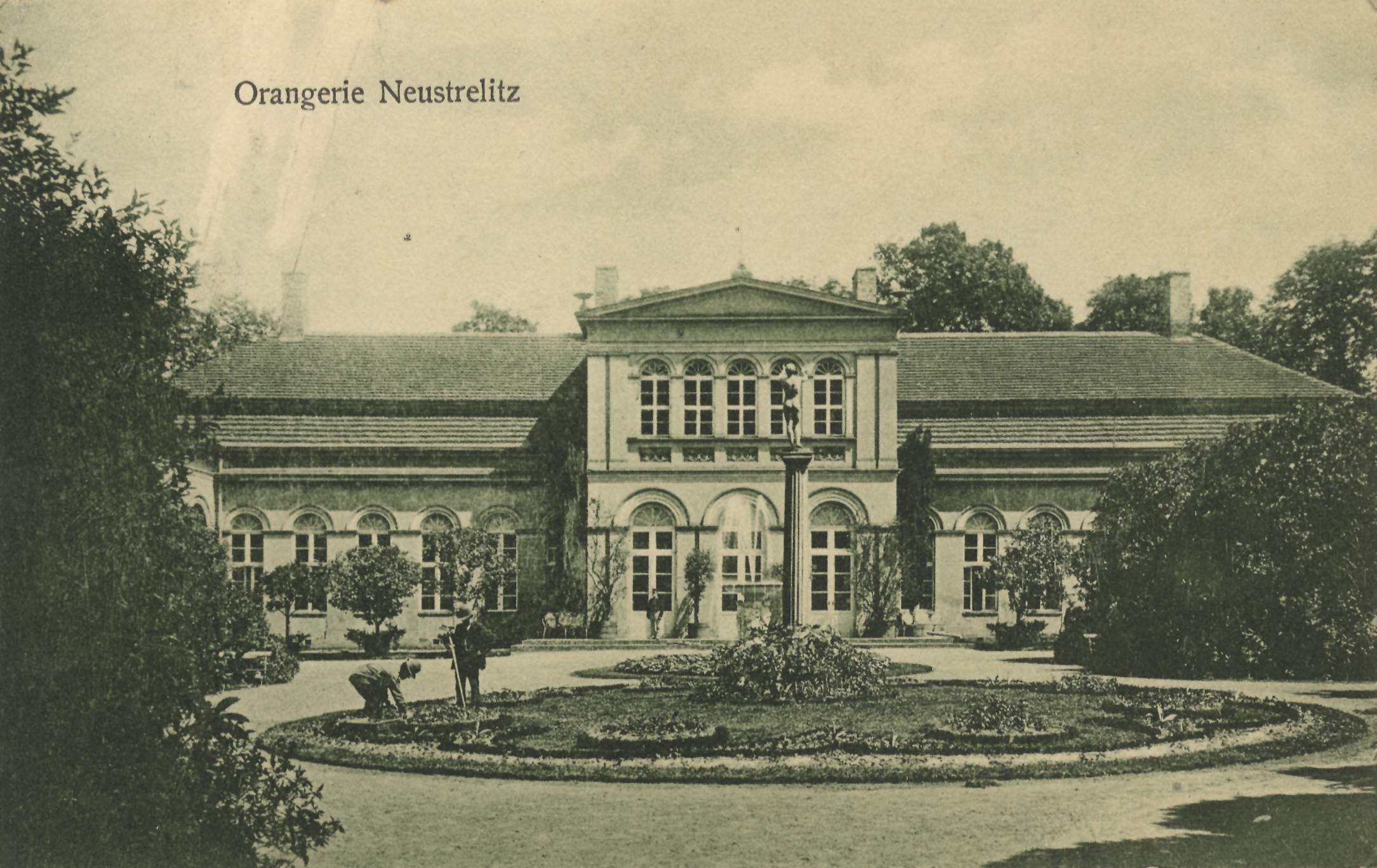 Postcard from 1925 showing the orangery of Neustrelitz.